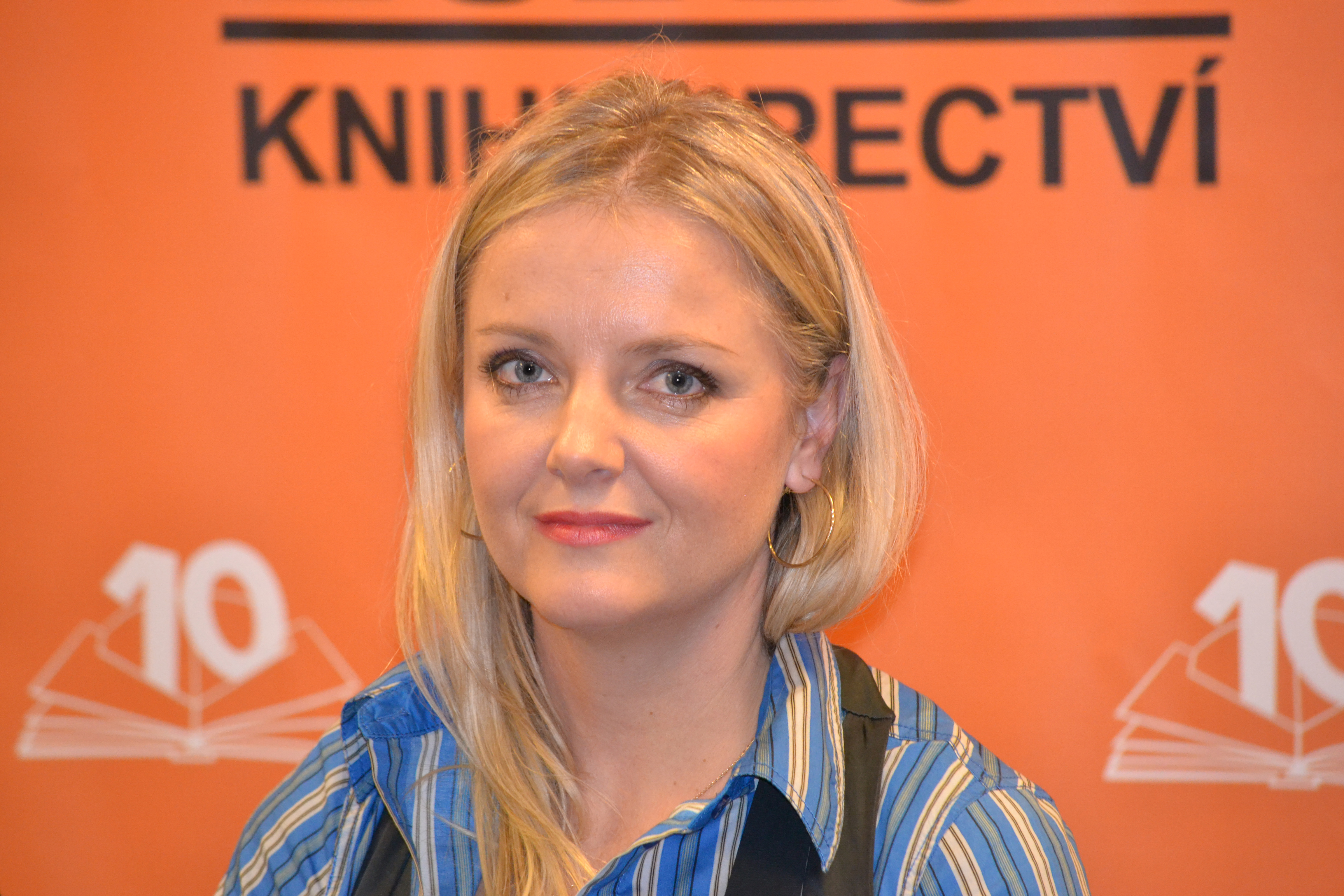 Gabriela Filippi, Czech actress